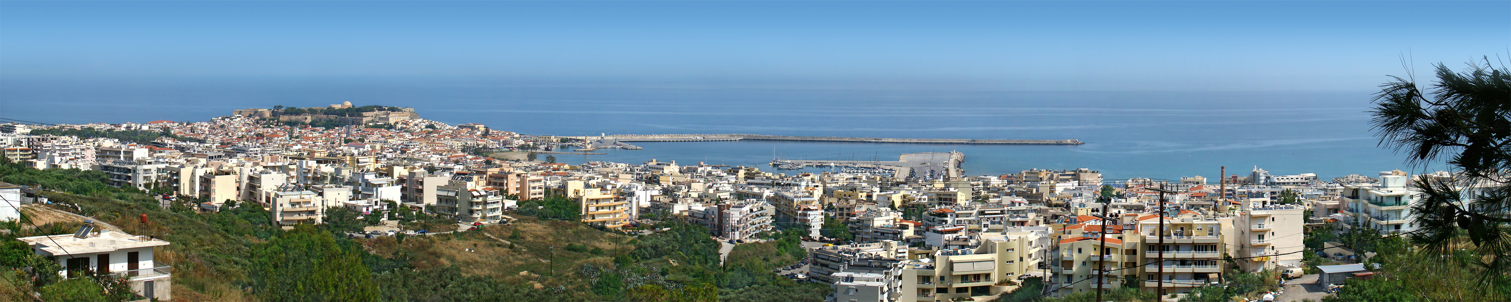 Rethymno, Crete, Greece. Panoramic view from the surrounding hills: at the centre, the harbour with the old Venetian harbour nestled against it in the left corner; more to the left, the Venetian fortress dominates the city.